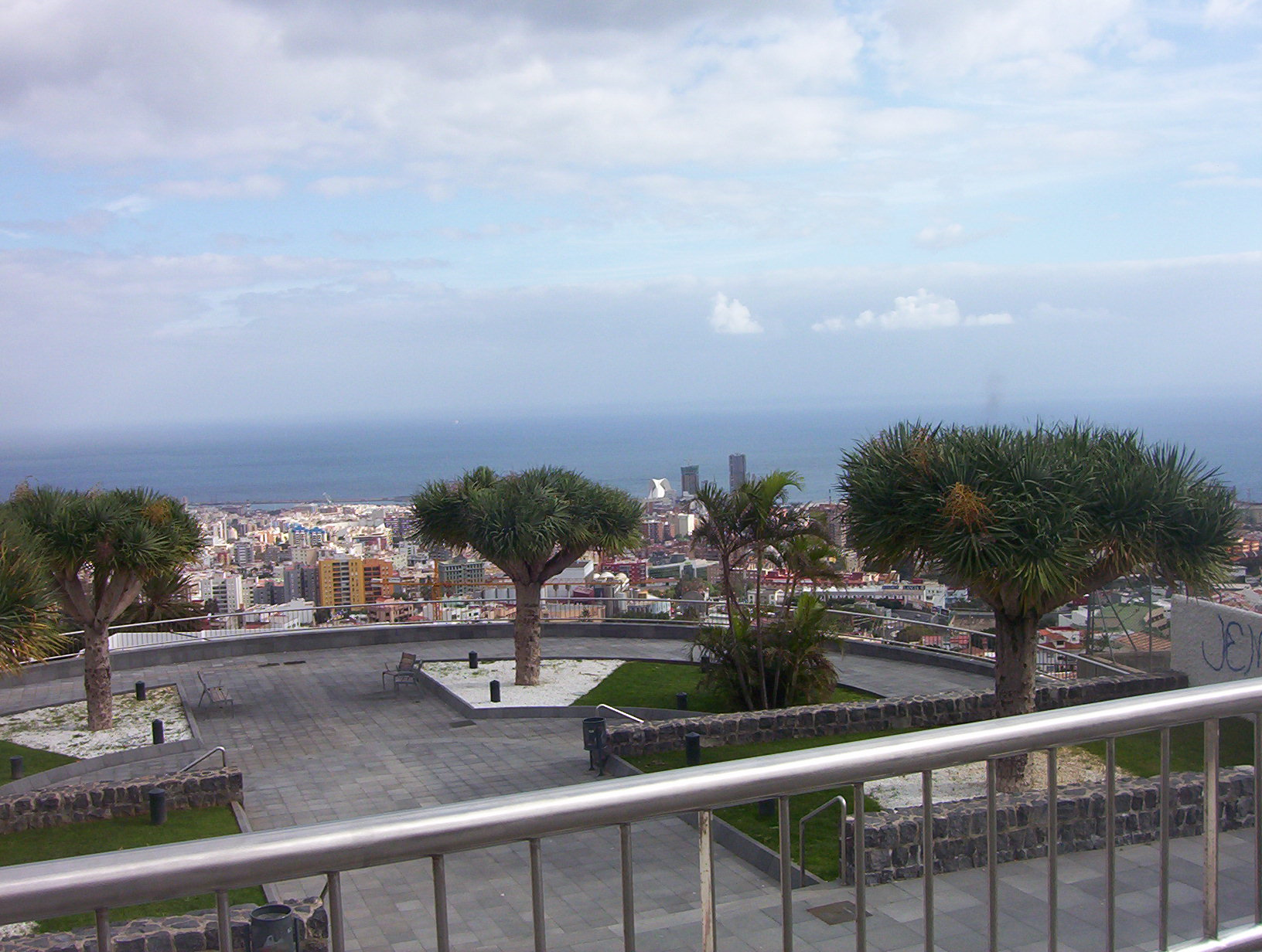 Santa Cruz de Tenerife